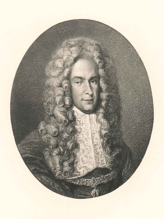 Leopold Matthias von Lamberg (* 20. Februar 1667 in Wien; † 10. März 1711 ebenda) war Oberststallmeister Kaiser Josepf I. und Landgraf von Leuchtenberg.